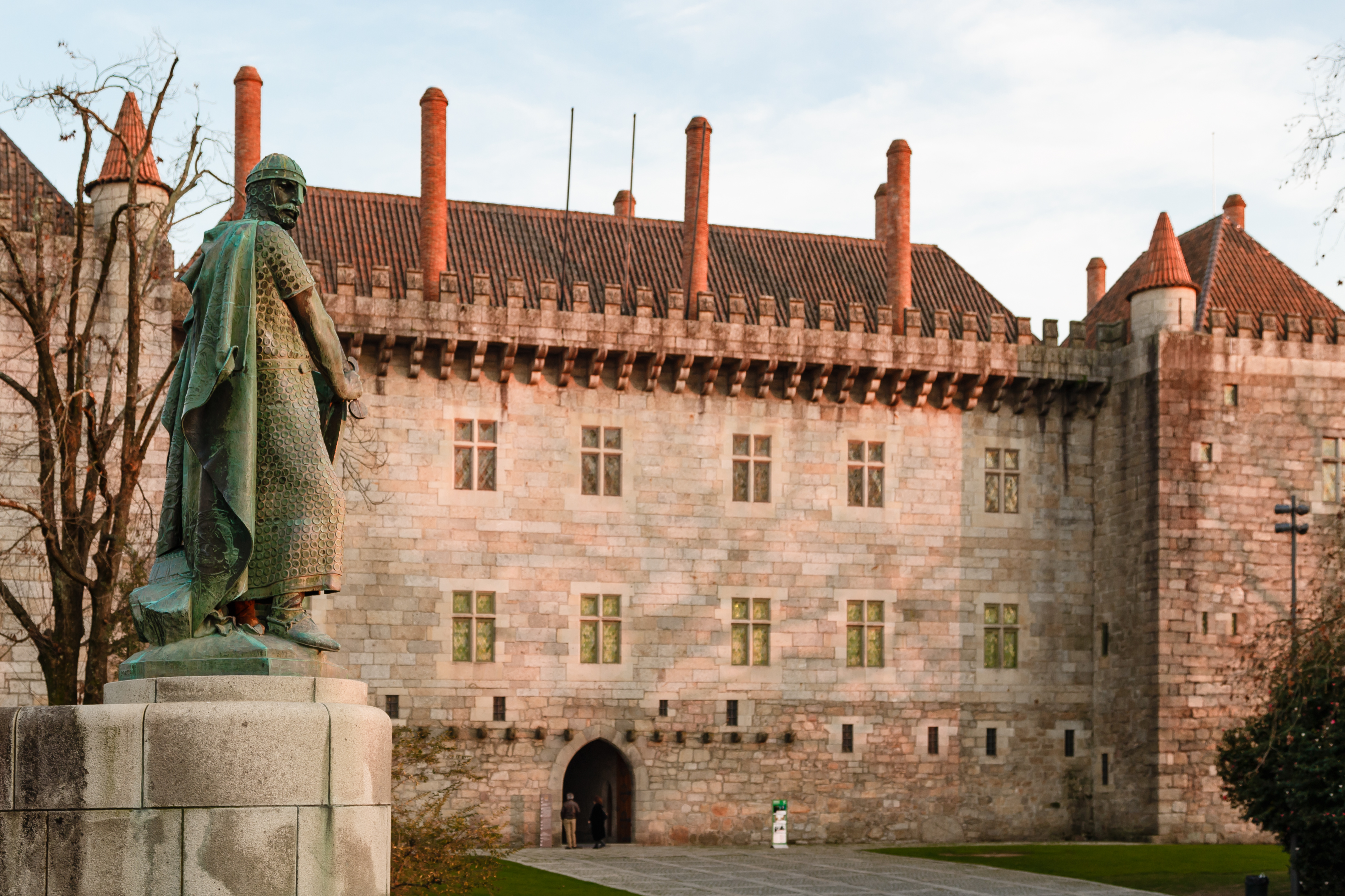 Guimaraes, Portugal: Monument of Alfons I. (1887) in front of Paço dos Duques de Bragança